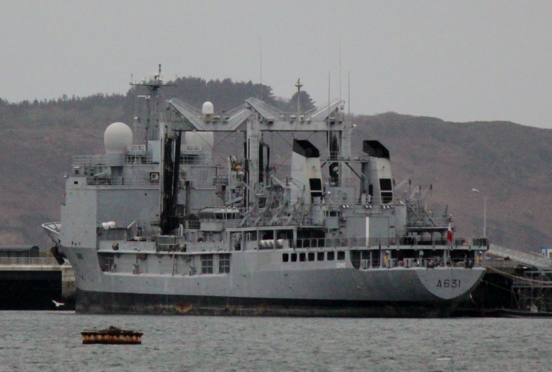 Somme A631 in Brest